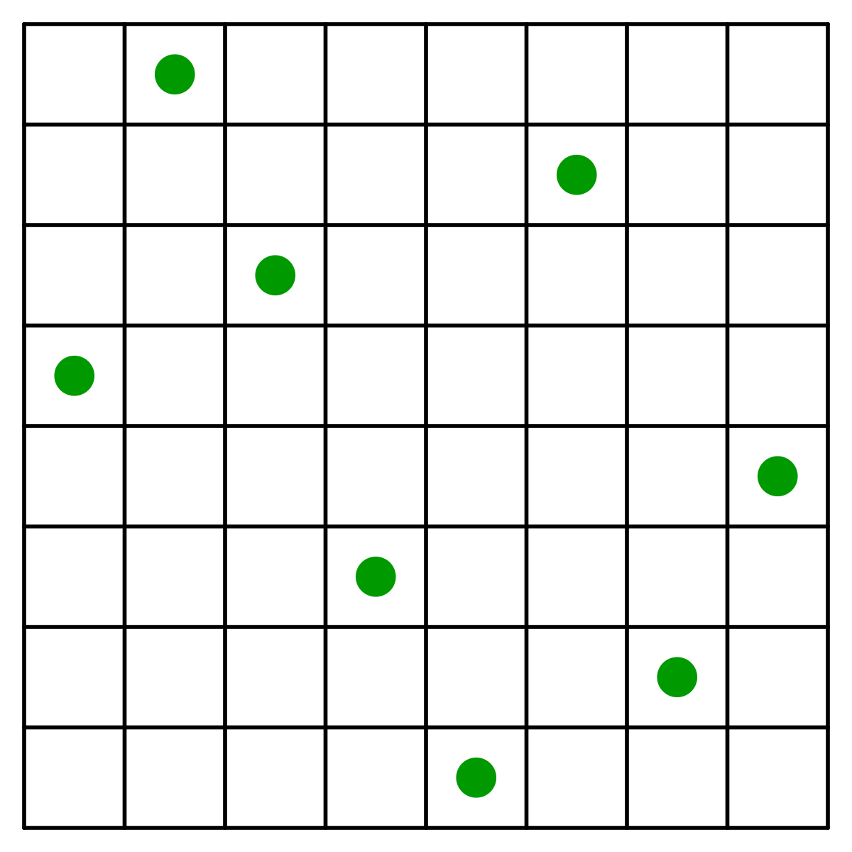 Permutation Matrix